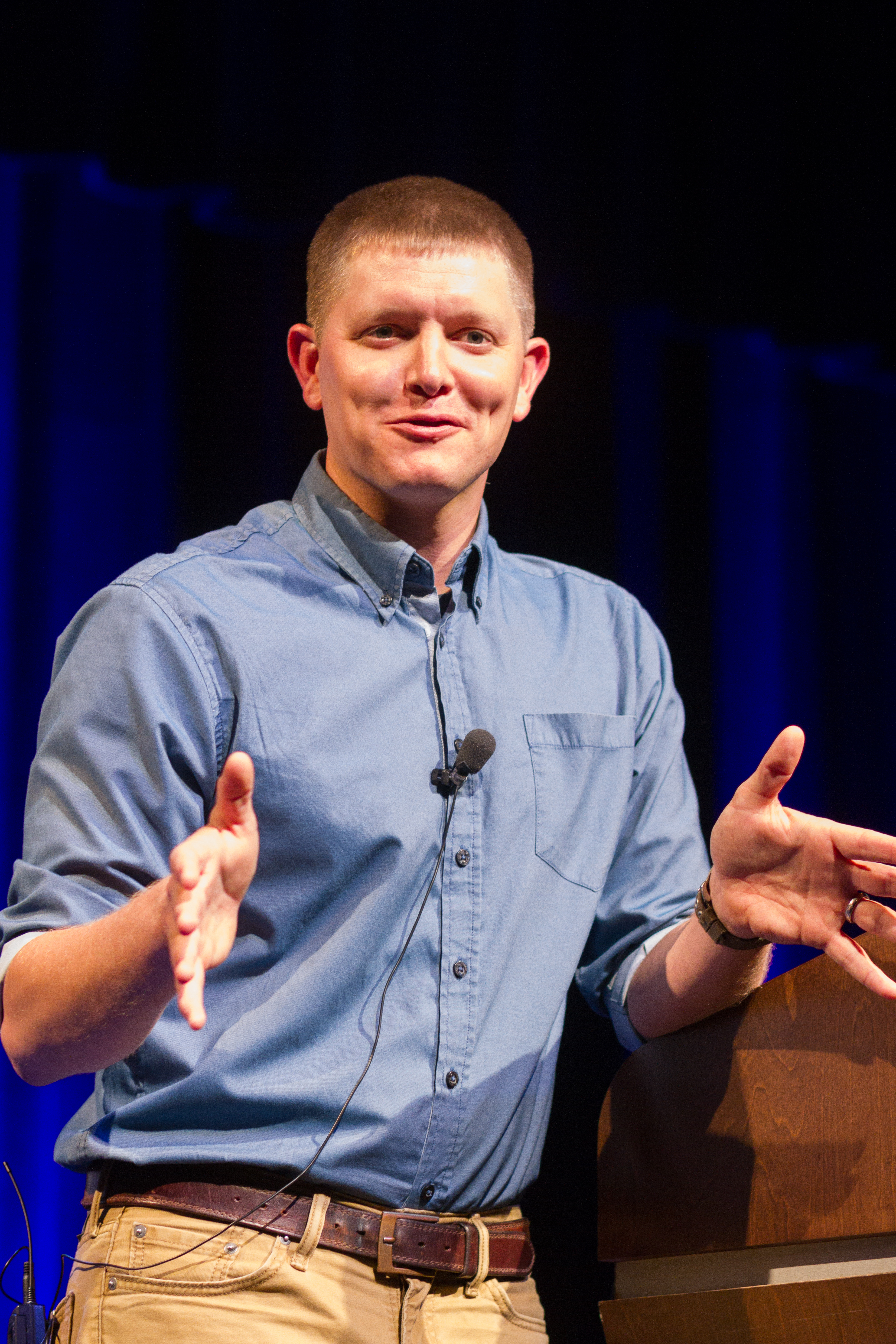 Destin Sandlin at Skepticon 8 in Springfield, Missouri.